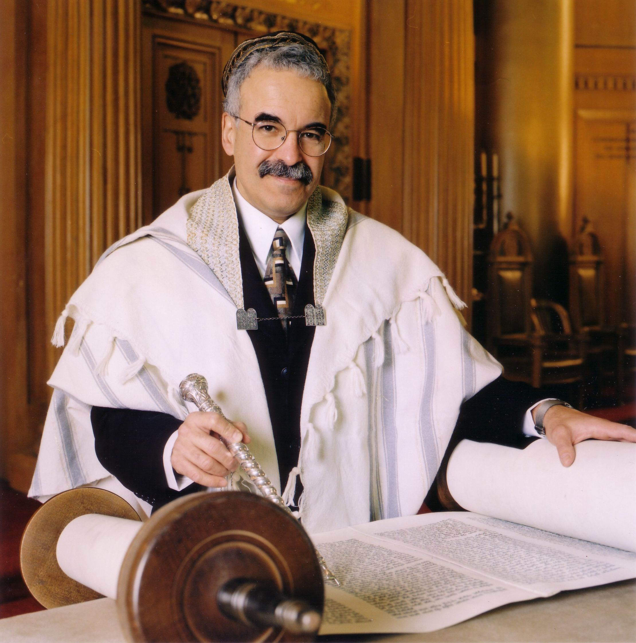 Photograph of Rabbi Gerald Weider of Brooklyn's Congregation Beth Elohim on his 25th anniversary as senior rabbi.